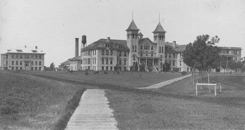 Photo postcard of Grafton State School, Grafton, North Dakota. Built in 1903. The main building at the North Dakota Institution for Feeble Minded, also known as Grafton State School, was built in 1903. The facility is on the National Register of Historic Places.